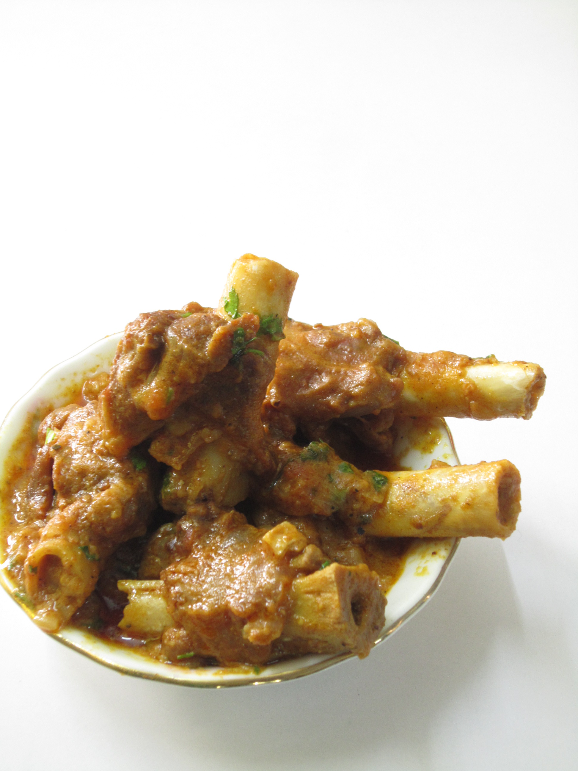 South Indian Special Nali Elumbu \ Mutton Narrow Bone Curry